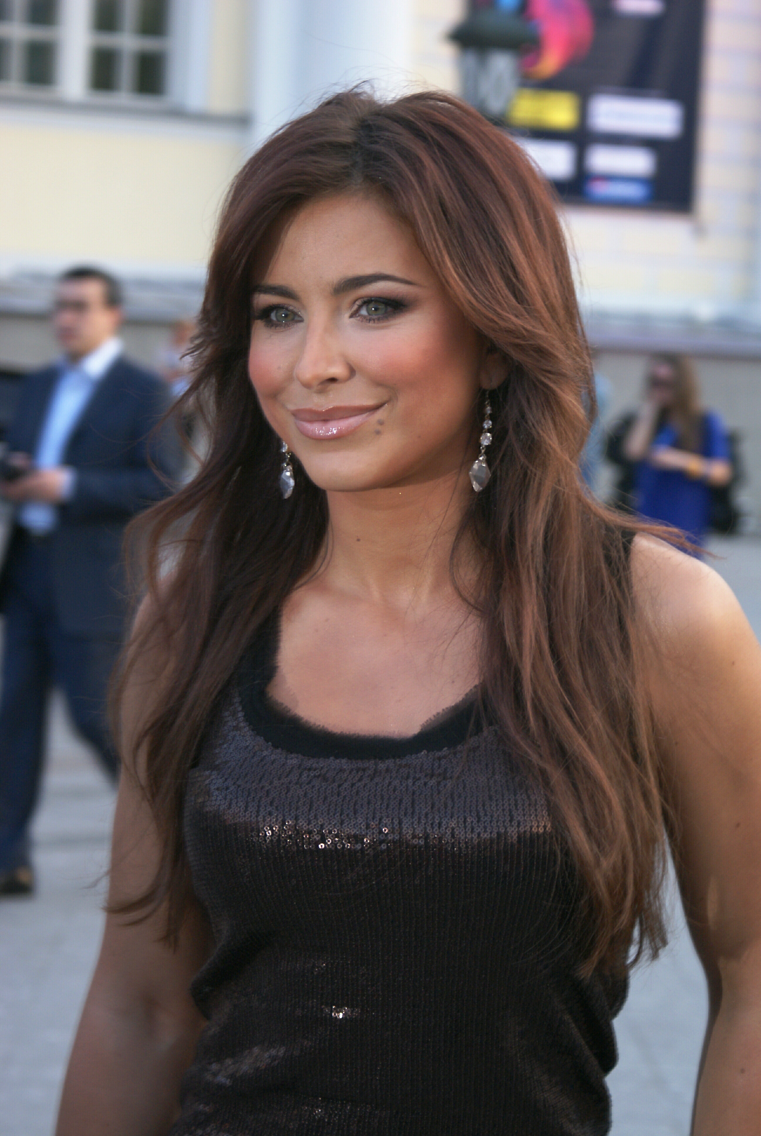 Ani Lorak in Moscow on May 10, 2009